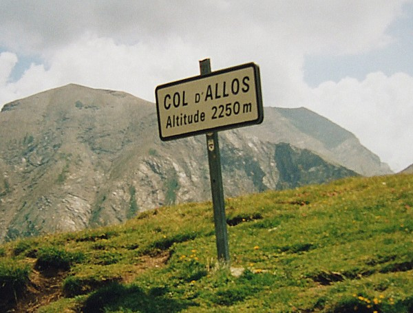 Col d'Allos Picture taken by user Idéfix in 1998